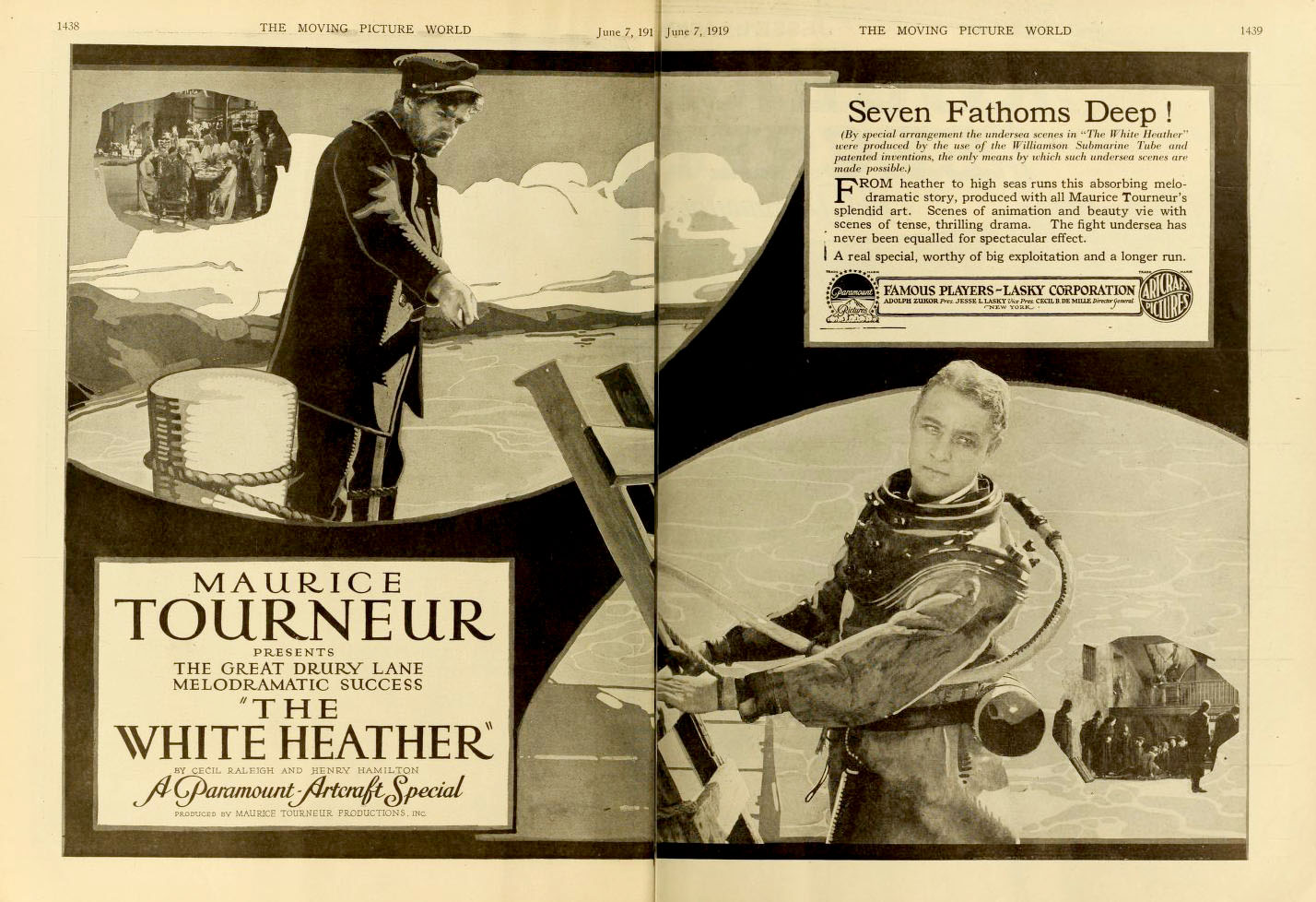 Advertisement for The White Heather with Holmes Herbert, directed by Maurice Tourneur. The Moving Picture World, June 1919.